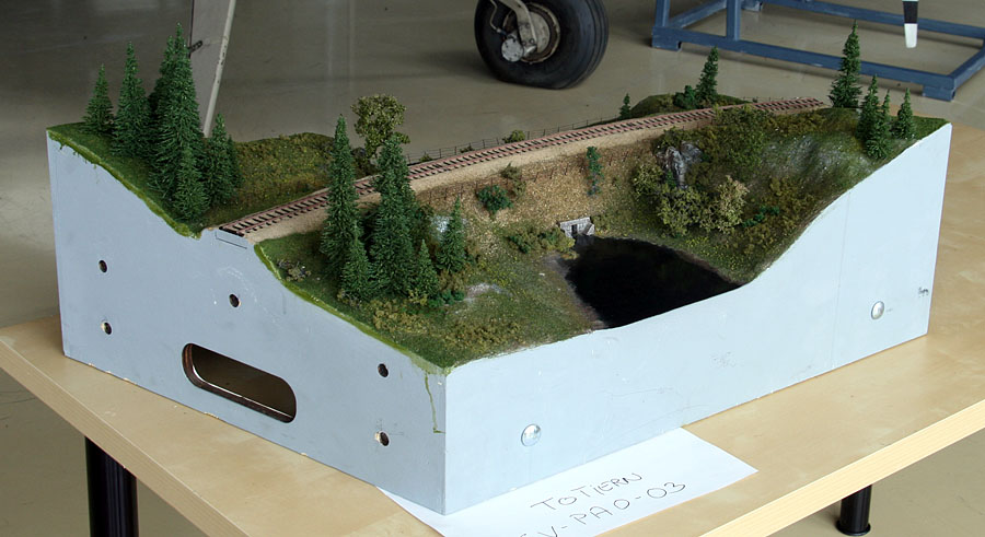 Typical Fremo-module